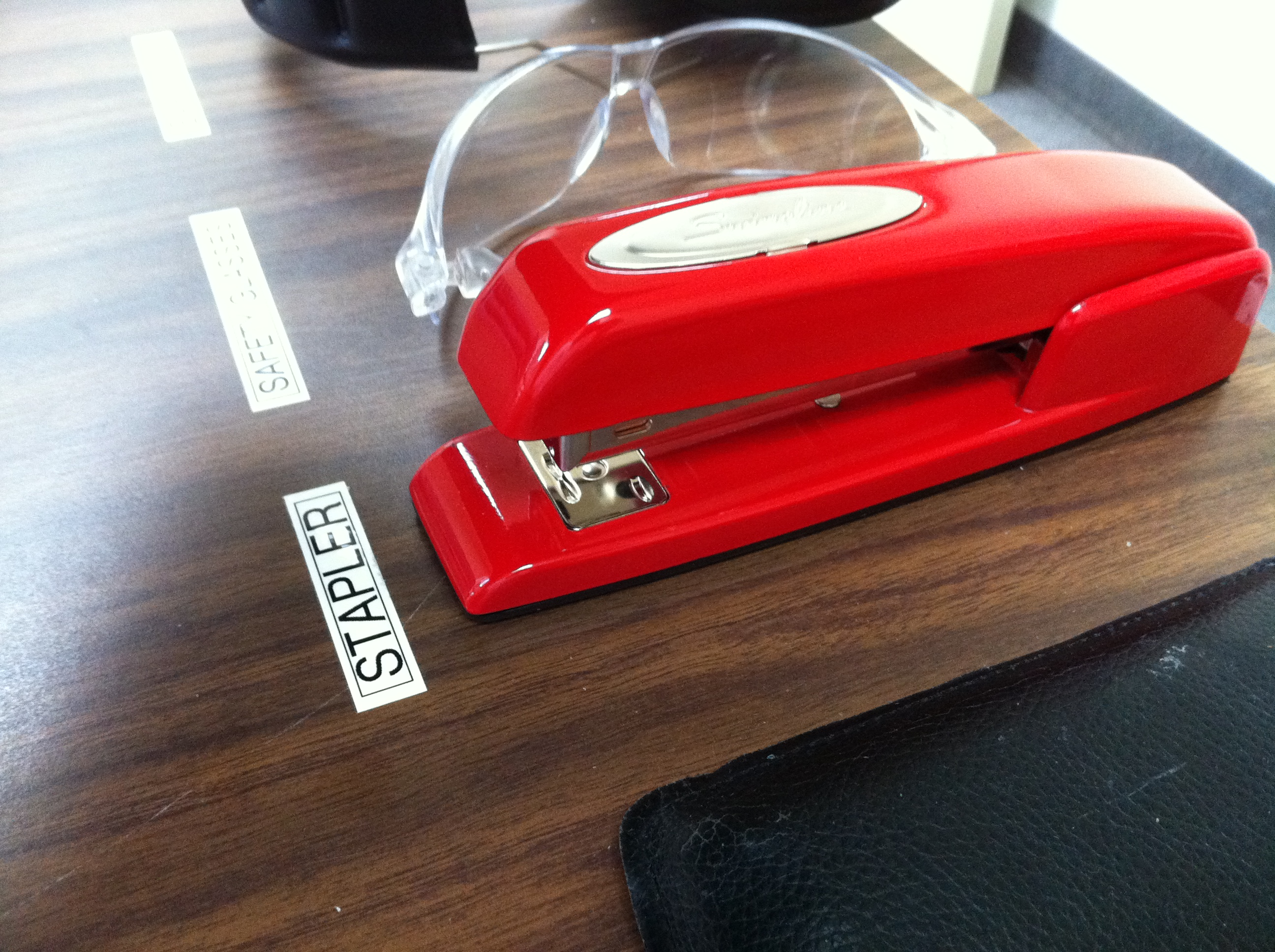 Photograph of "Rio Red" 747 Business Stapler